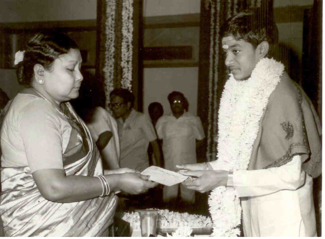 U. SRINIVAS, Also known as MANDOLIN SRINIVAS, receiving Raja LAkshmi Foundation Award in Chennai, India